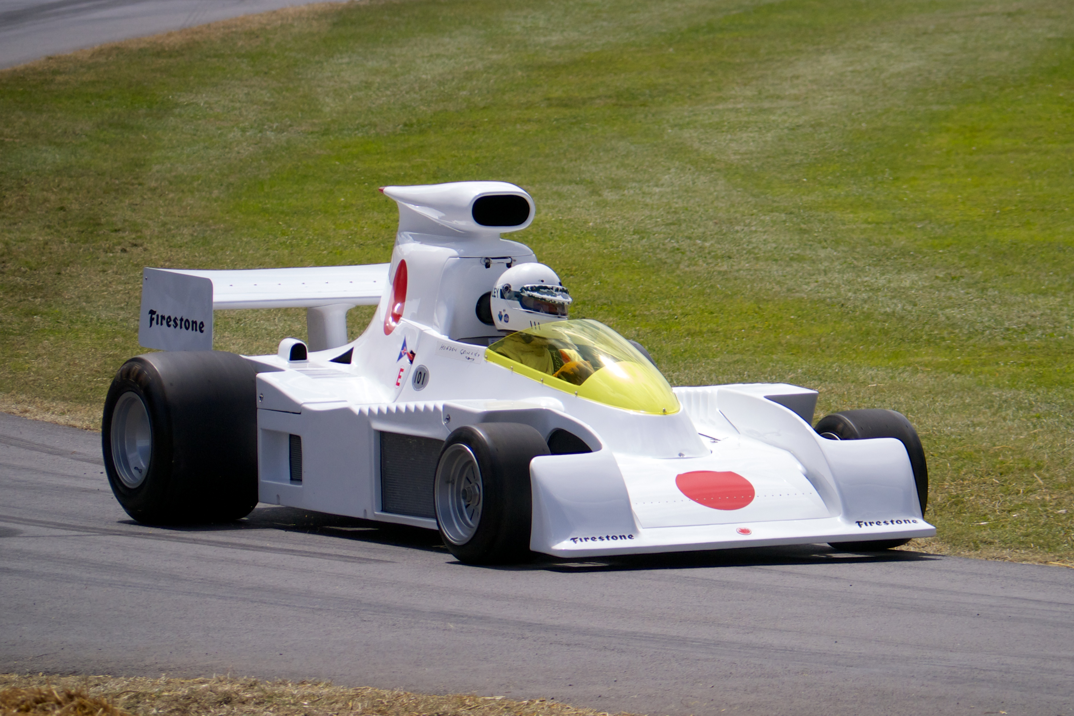 The 1974 Maki-Cosworth F101 F1 car at the 2014 Goodwood Festival of Speed.